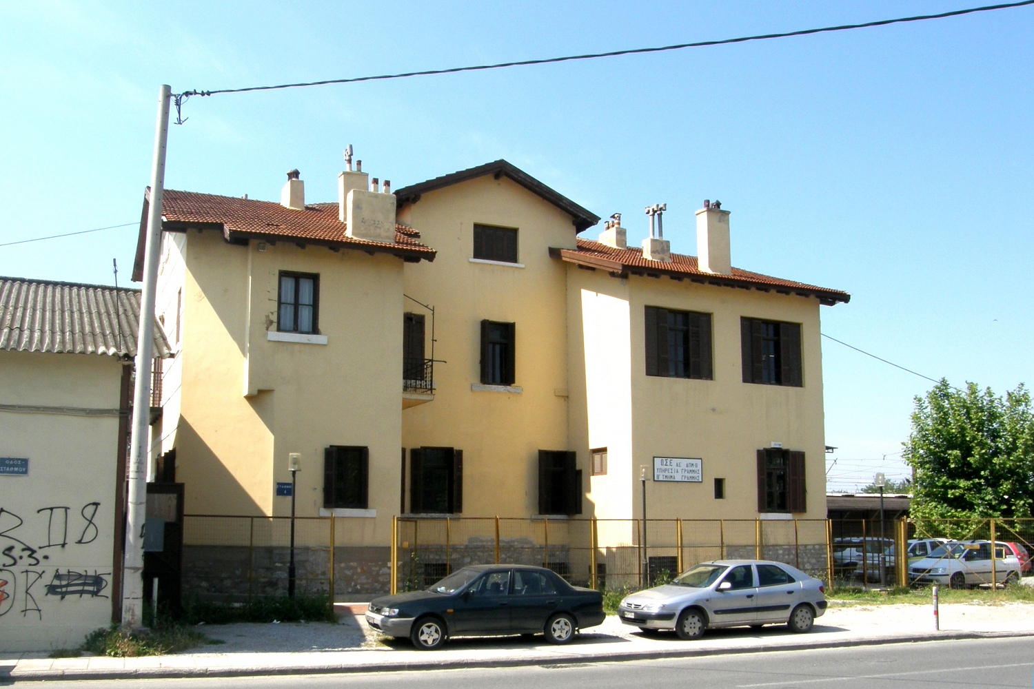 Thessaloniki, Greece: The former house of the General Manager of the Oriental Railways (late 19th century), next to the site of the Old Railway Station. Today used by the Permanent Way Maintenance Department of EDISY S.A.